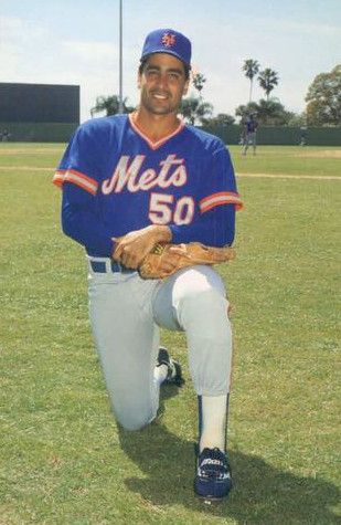 Professional baseball player Sid Fernandez